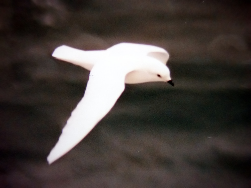 Snow Petrel,Pagodroma nivea in Ross sea, Antarctica. The image is a digital picture of an old print.